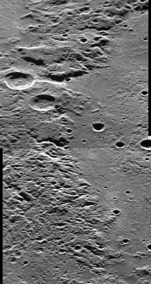 Southern rim of Aneirin crater on Mercury. Mosaic of MESSENGER Narrow Angle Camera images. North is at right. Image width is about 91 km. Statistics for bottom image: Emission Angle: 48.8 Incidence Angle: 77.9 Latitude: -32.3 Longitude: 358.3 Phase Angle: 126.6